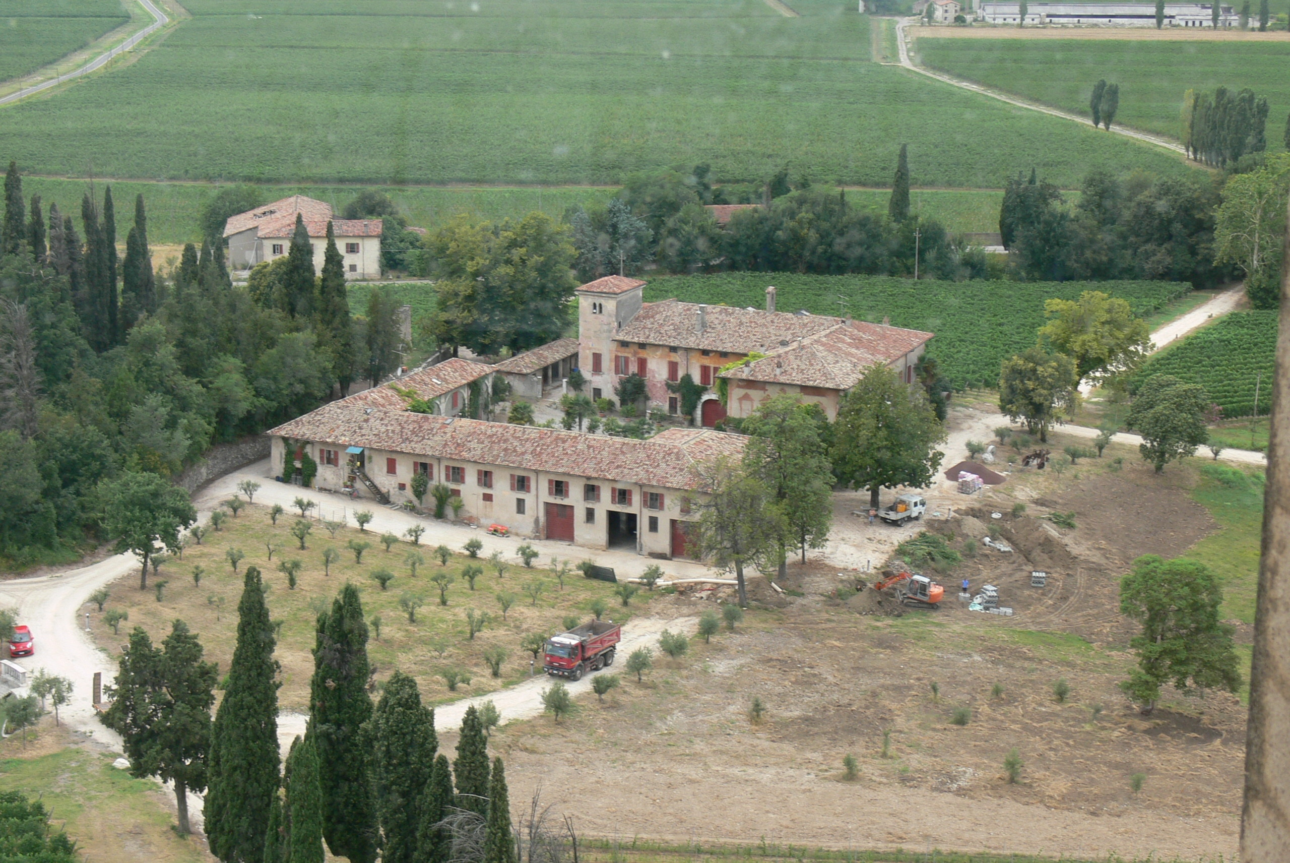 San Martino della Battaglia ( Italy ). View from the tower: Farm house